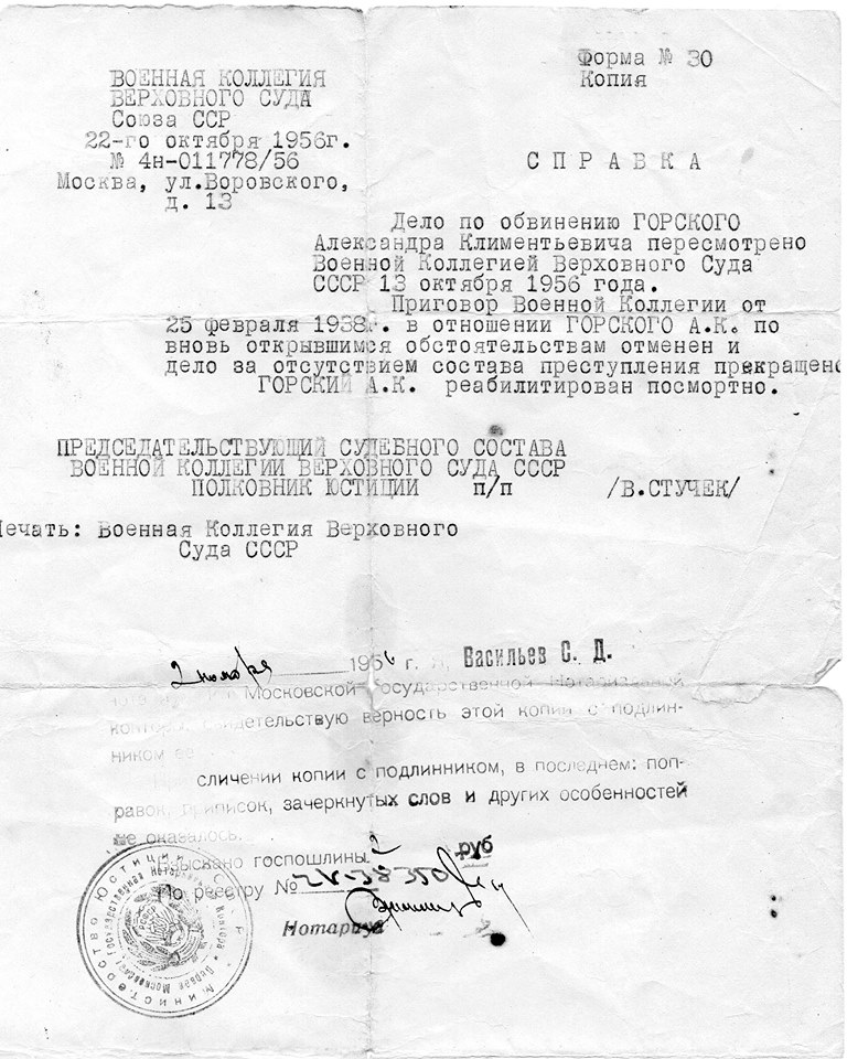 Document of rehabilitation of Alexandr Gorsky